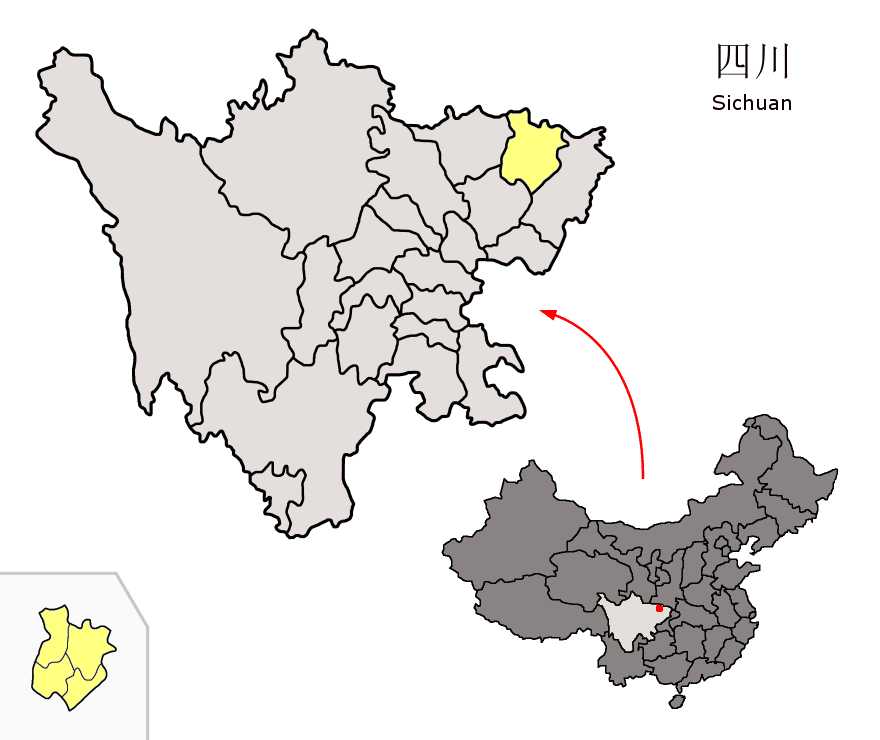 Location of Bazhong Prefecture (yellow) within Sichuan province of China Map drawn in october 2007 using various sources, mainly : Sichuan province administrative regions GIS data: 1:1M, County level, 1990 Sichuan Counties map from